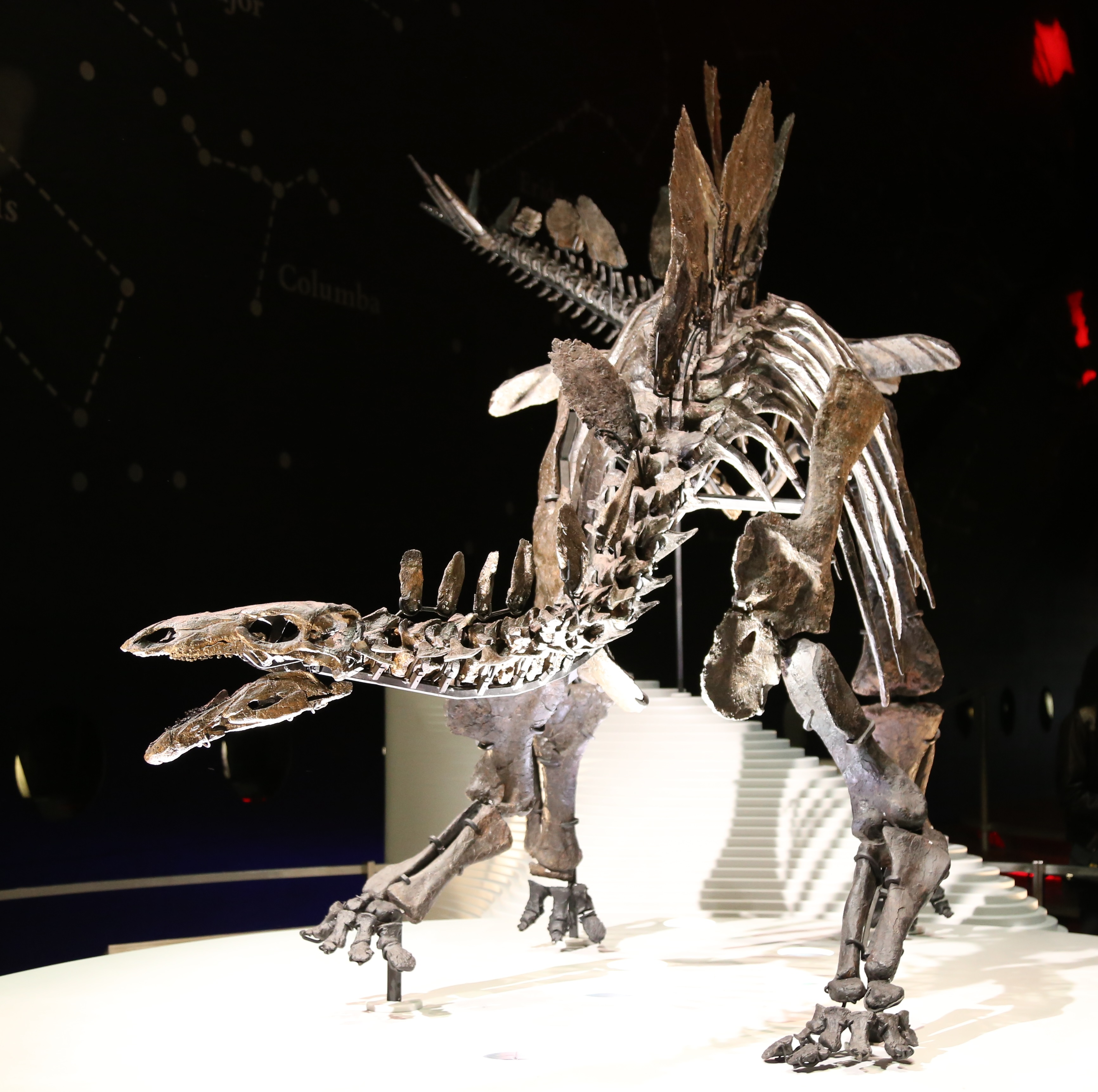 Sophie